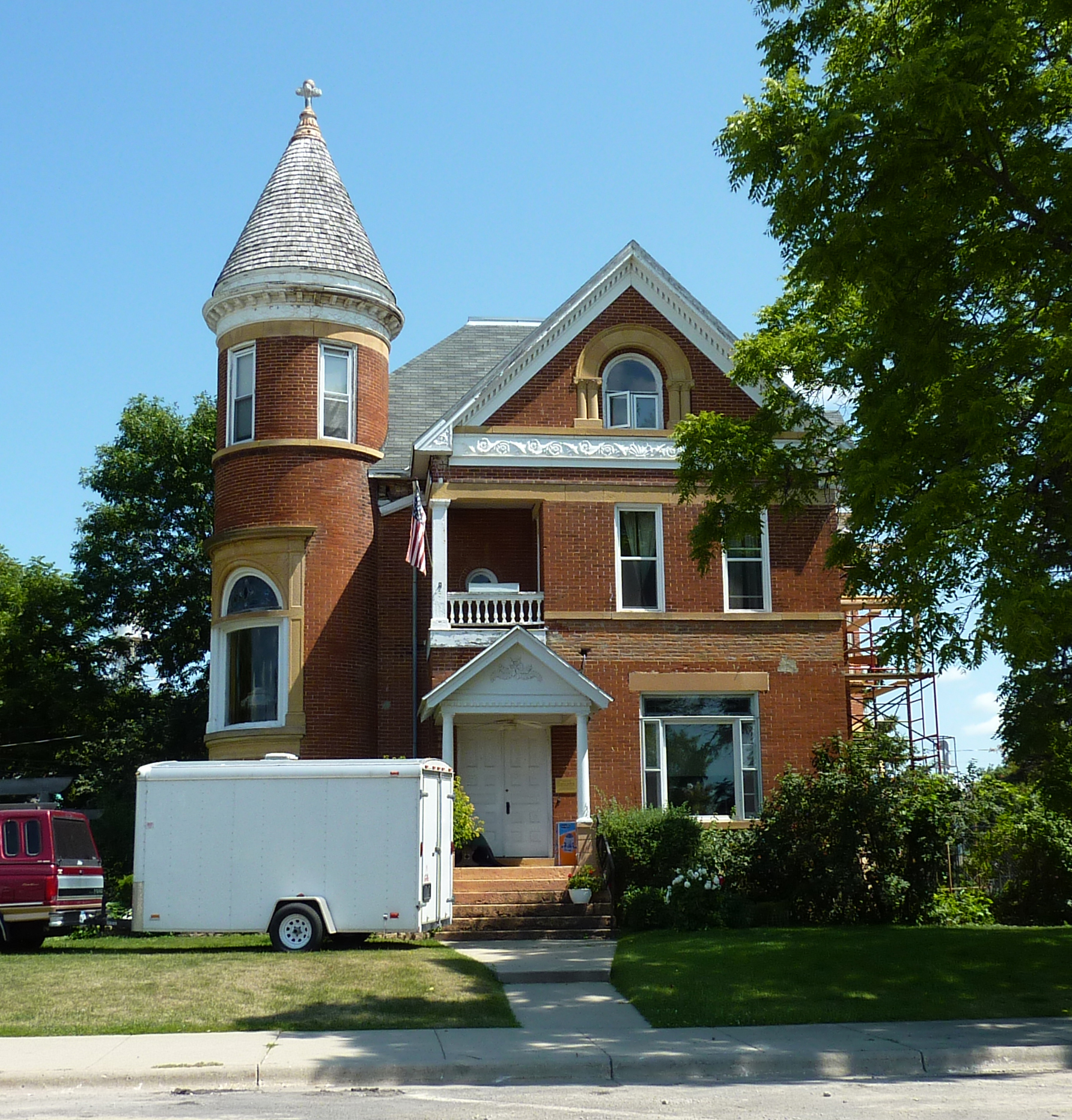 Lucas Troendle House, Mapleton, Minnesota, USA.